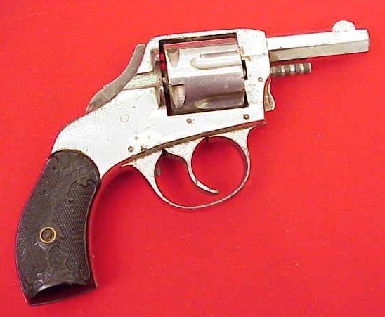 H&R The American Safety Hammer This image is released into the Public Domain for any and all uses. Image is released into the Public Domain for any and all uses.